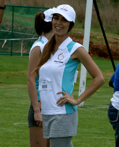 Miss Italy 2008 Claudia Russo during Miss World 08